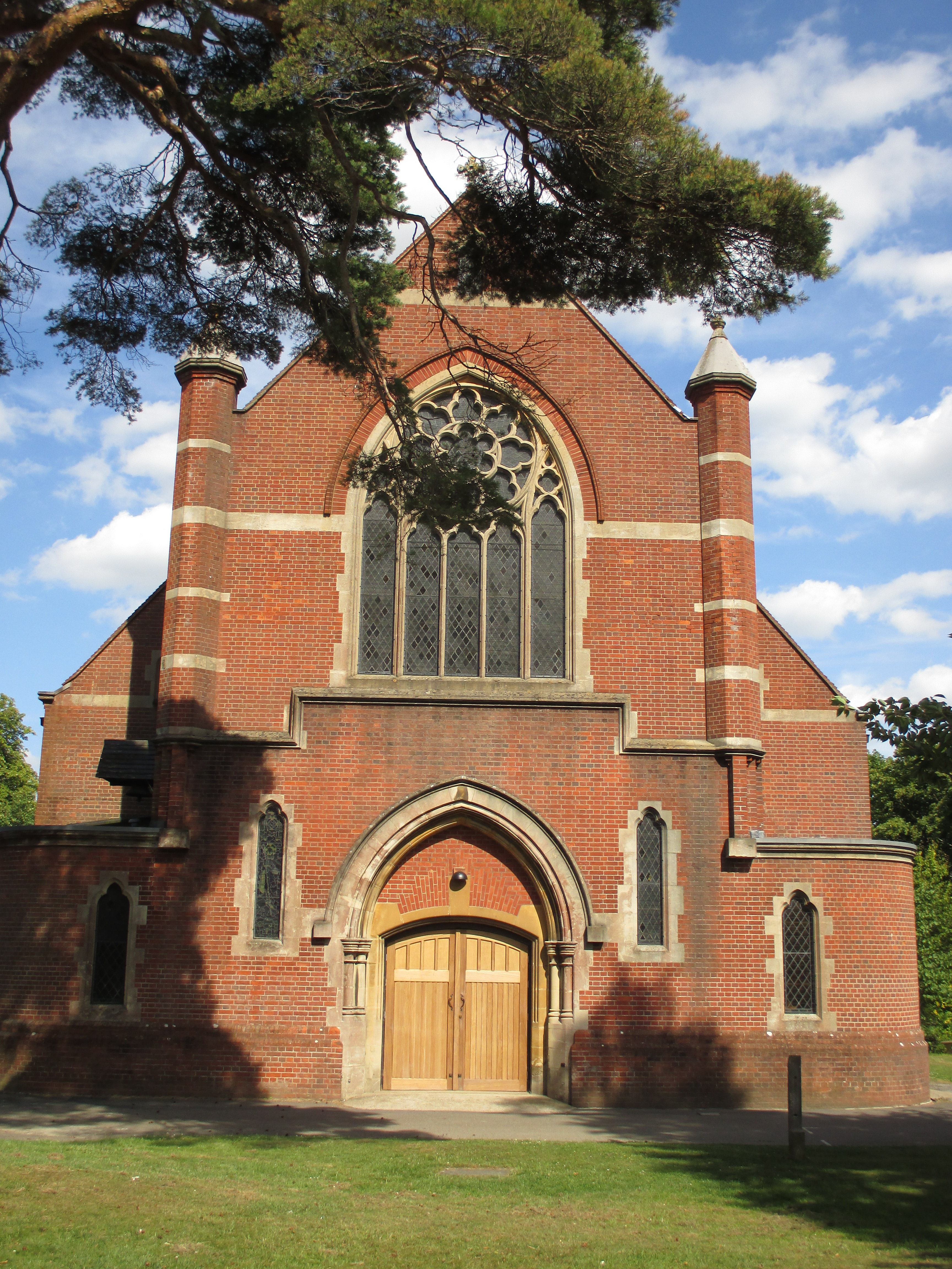 St Andrew's parish church, Junction Road, Burgess Hill, West Sussex, England